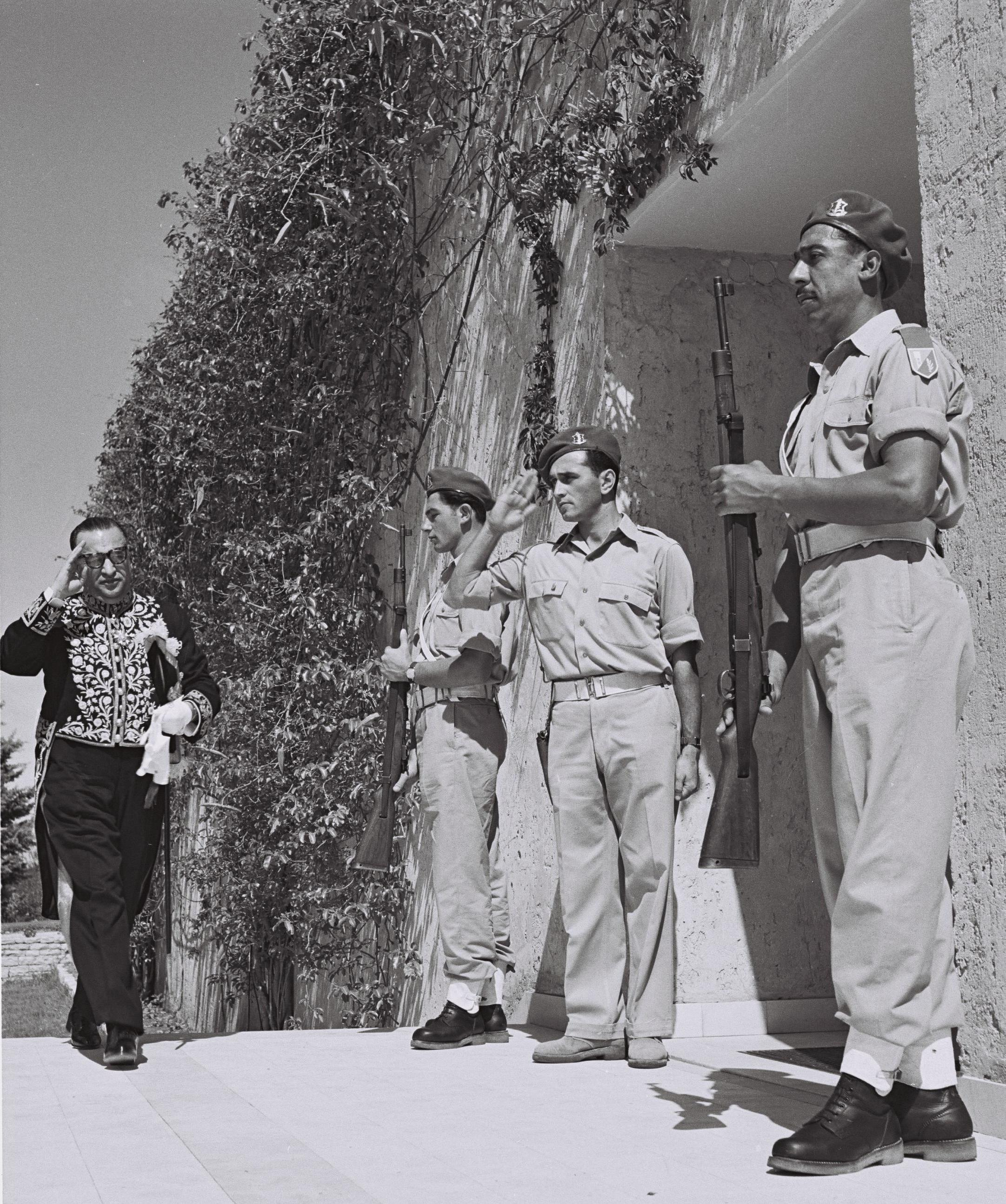 Original Description: Persian minister Saffinia arrving at the home of president Haim Weizmann in Rehovot, on independence day.